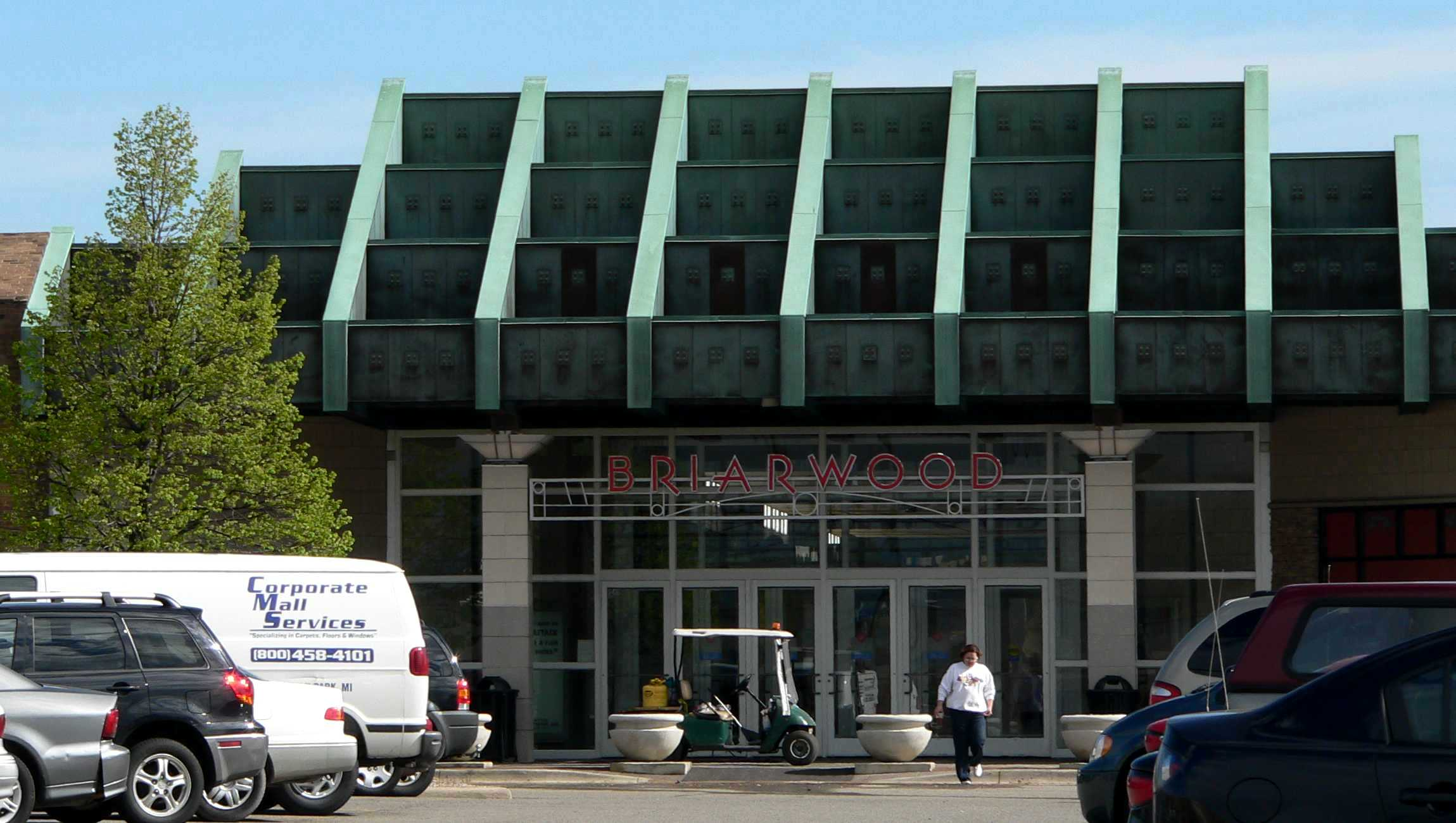 South-east entrance to Briarwood Mall in Ann Arbor, Michigan.